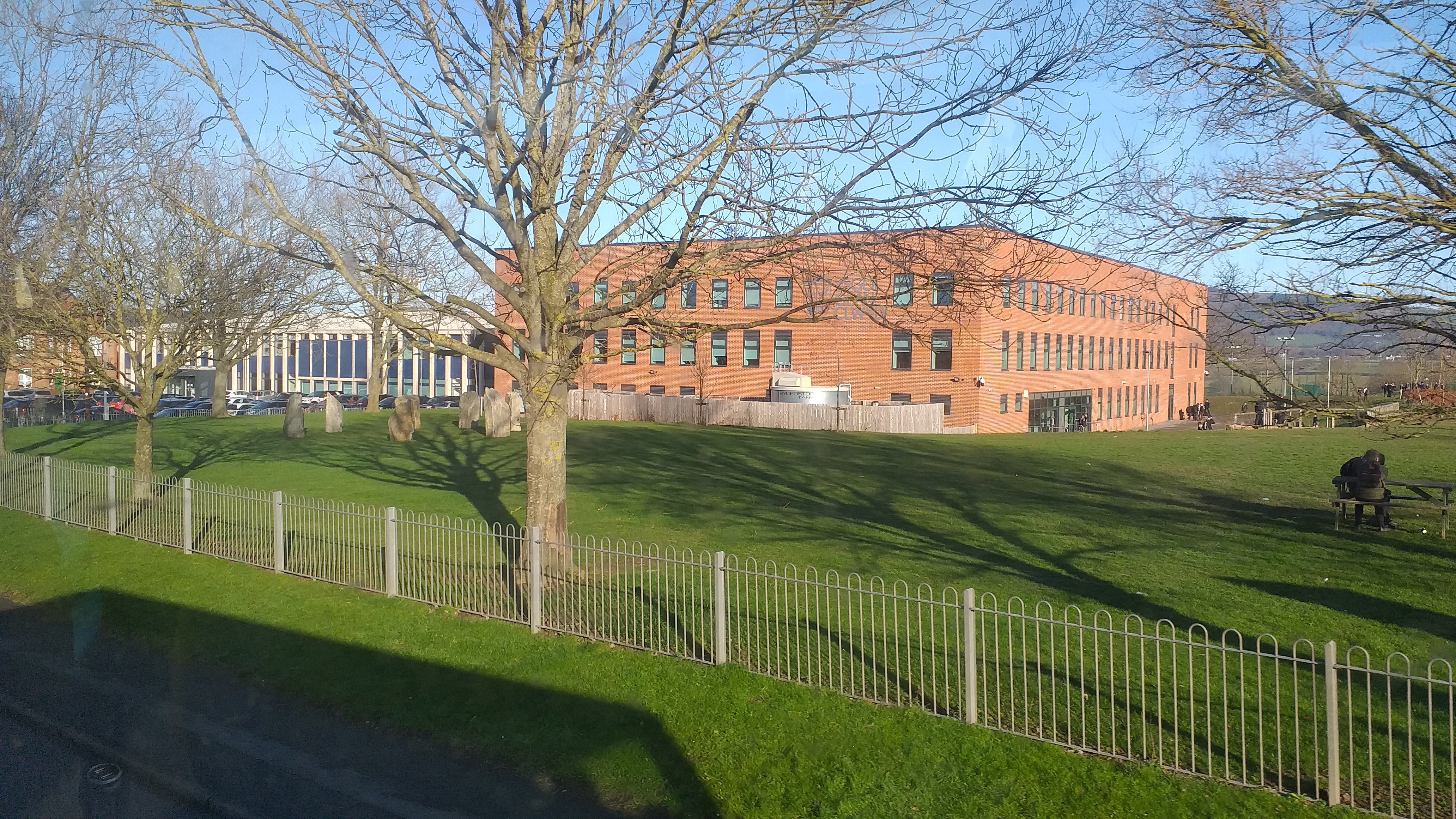 The new extension building of St Asaph's secondary school and sixth form college.